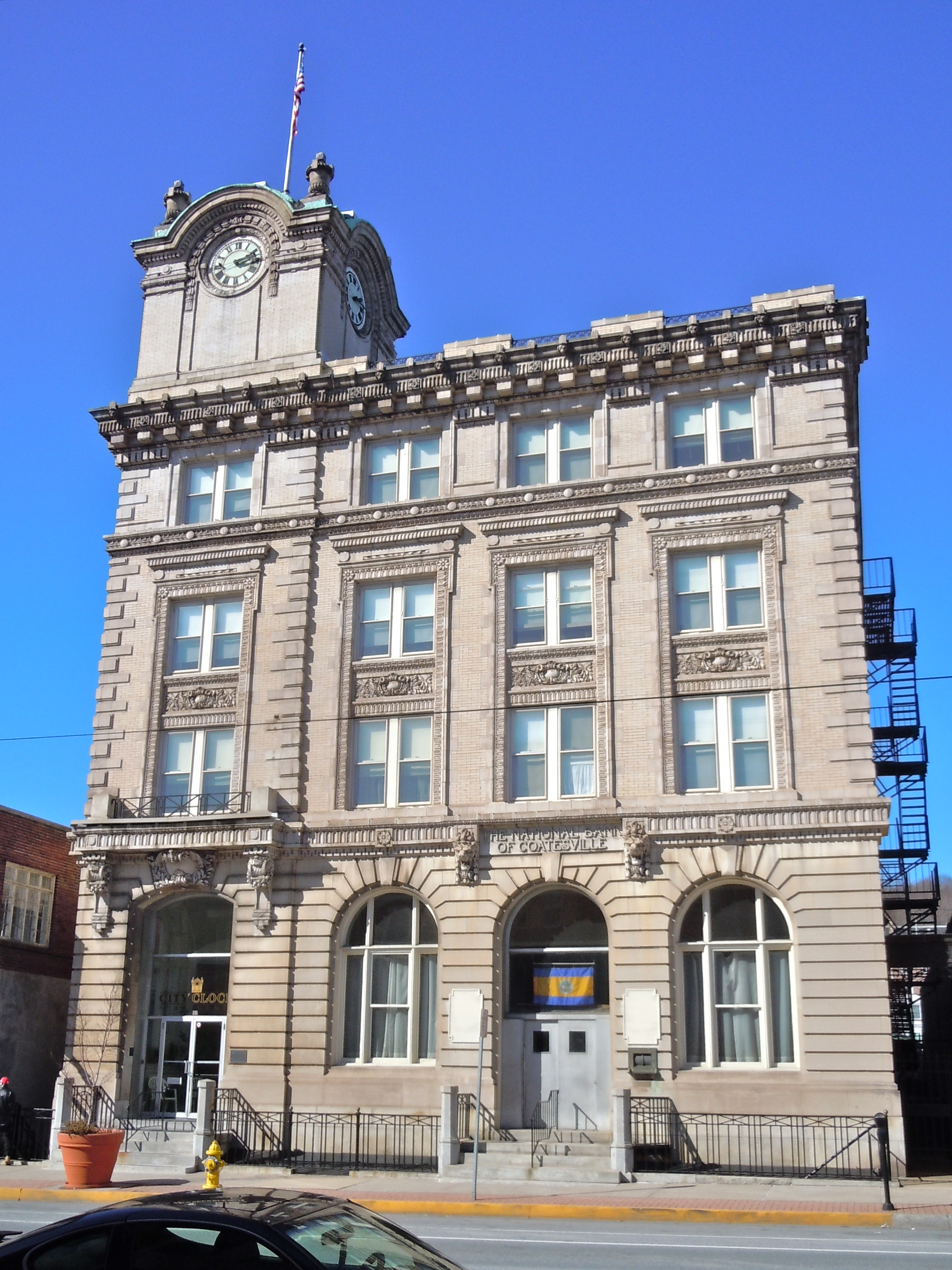 National Bank of Coatesville Building on the NRHP since September 14, 1977. At 235 East Lincoln Highway (old US 30, Lincoln Highway), Coatesville, Pennsylvania in Chester County and contributing building in Coatsvilles Historic District.